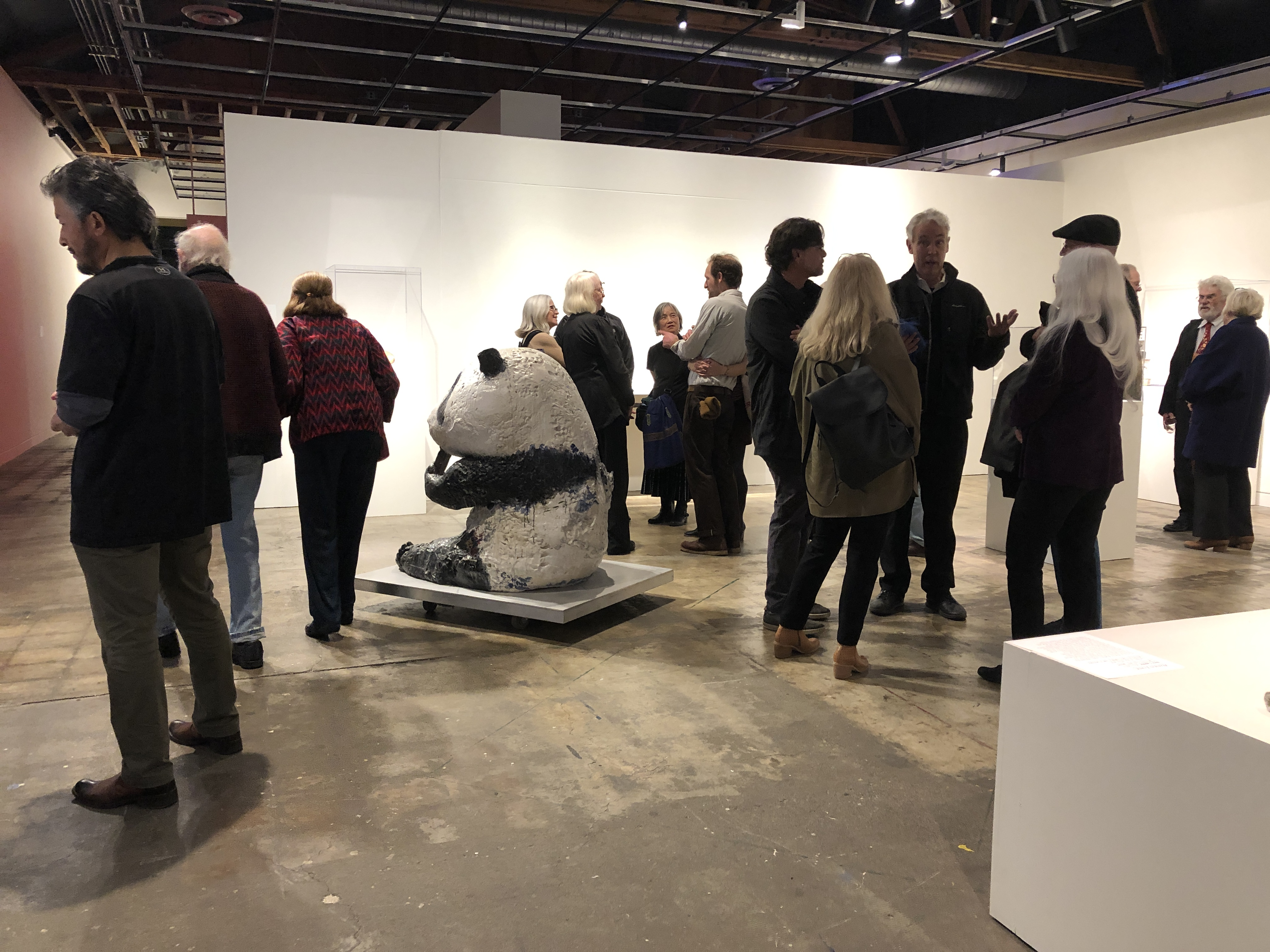 Opening of the Richard Shaw and Wanxin Zhang show at the Sonoma Valley Museum of Art in Sonoma, California